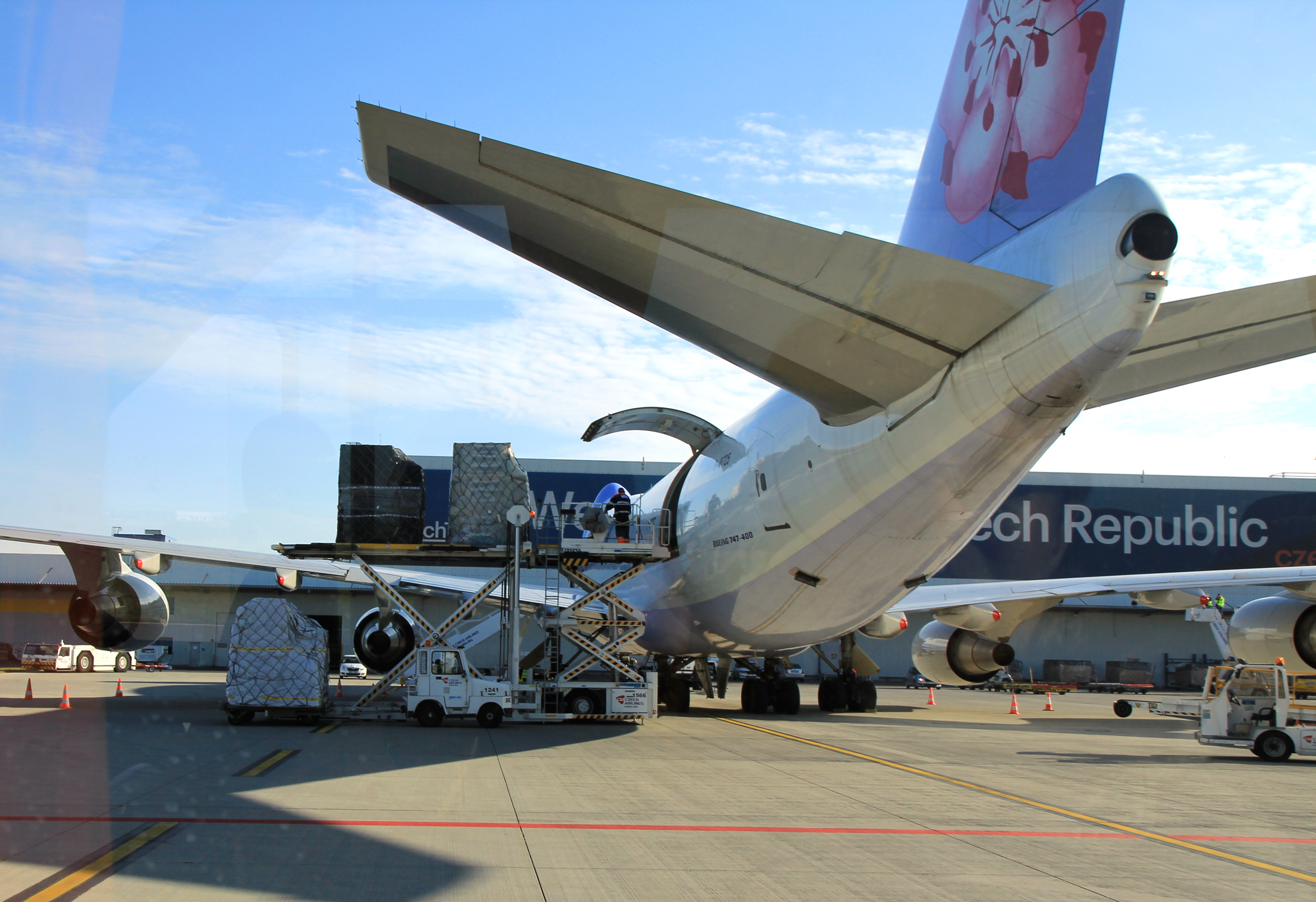 Cargo aircraft Boeing 747-400F loading cargo on Václav Havel Airport Prague, Czech Republic